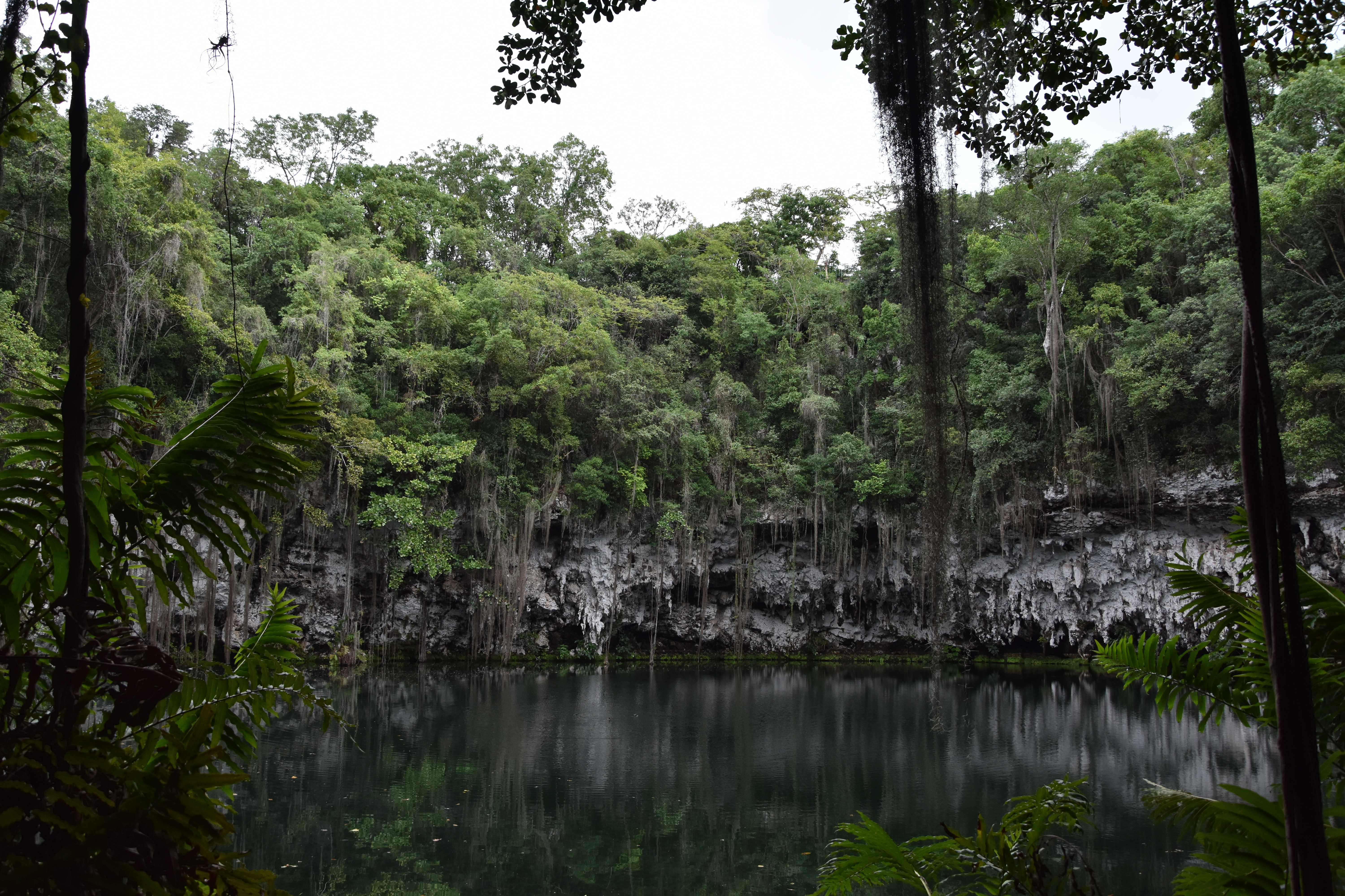 Los Tres Ojos national park in Santo Domingo Este, Dominican Republic.